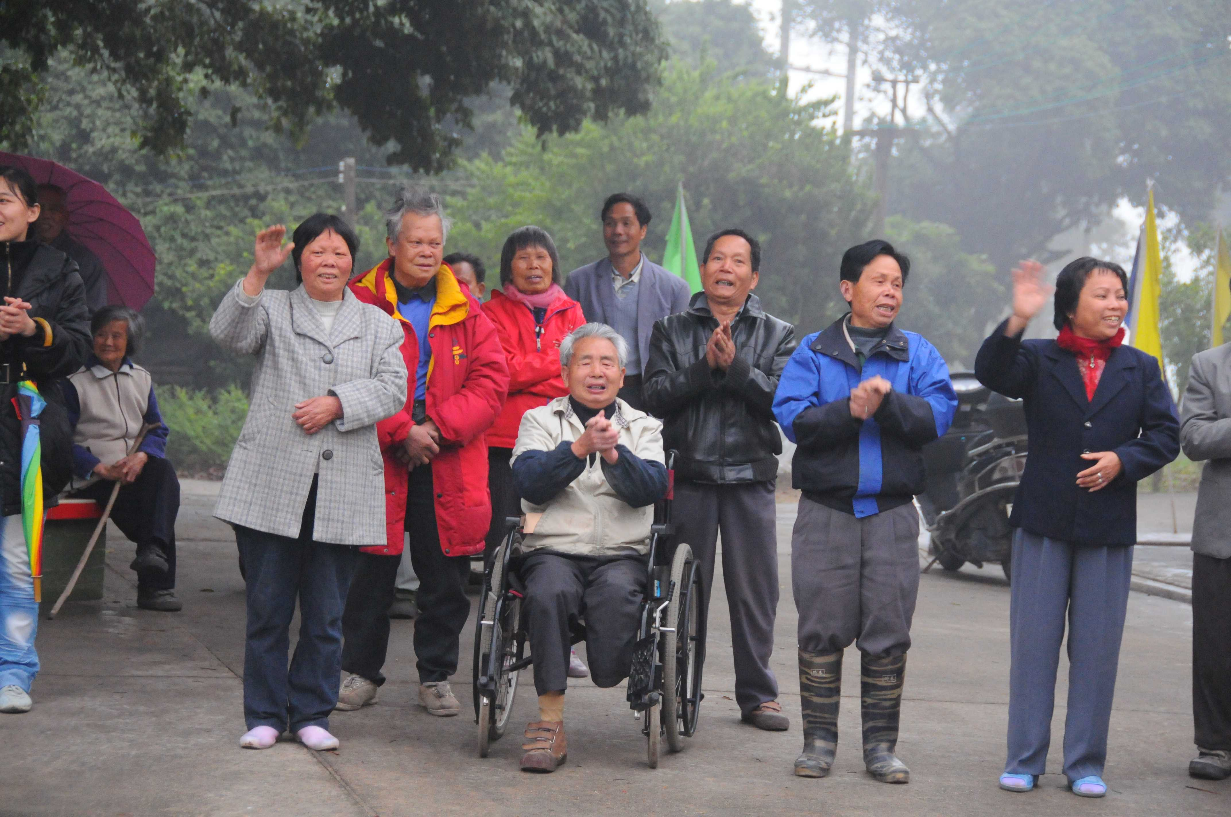 Residents at Gate of Heave Leprosarium at Kongmoon 厓門倉山, taken on 19 March 2011